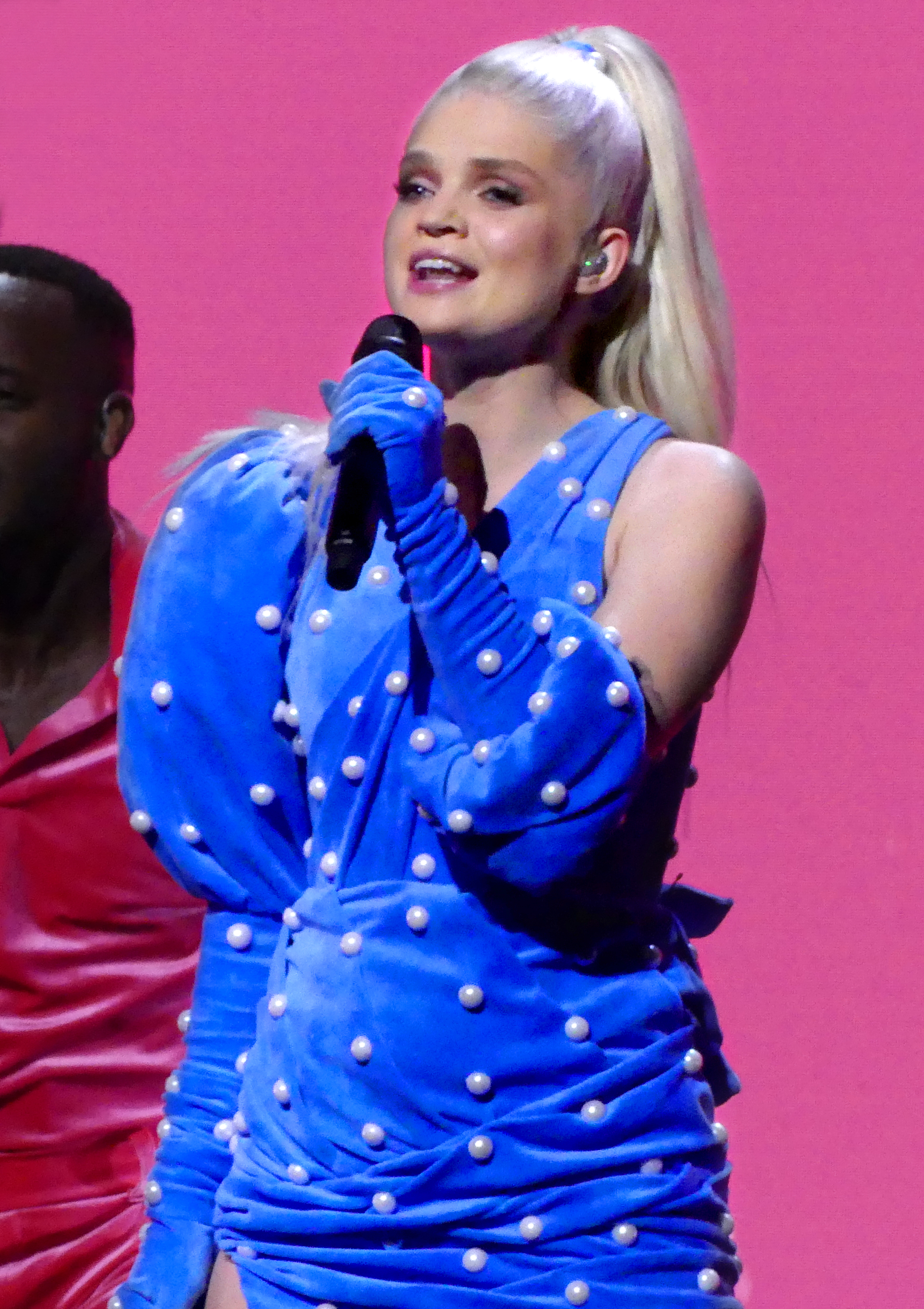 Melodifestivalen 2019, part contest 2, Malmö, Sweden